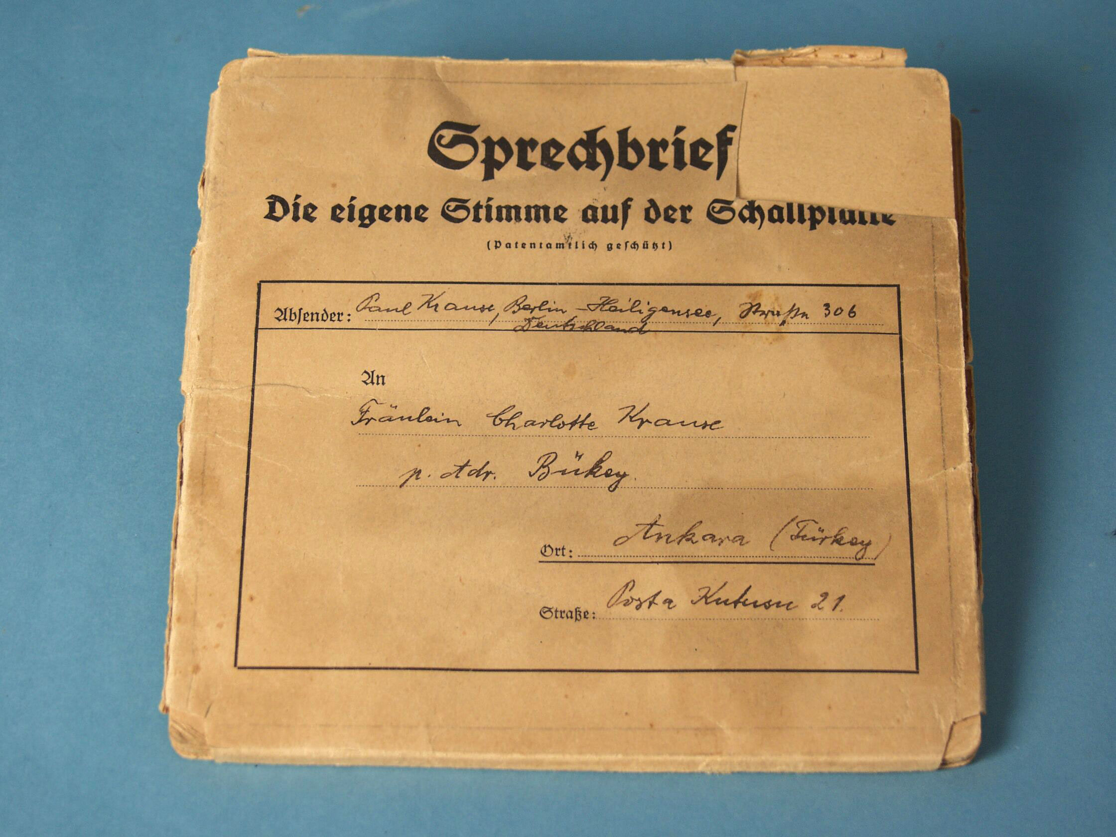 Sprechbrief = Spoken Letter. Sent in December 1938 by a Berlin couple to their daughter Lotte in Ankara, Turkey.